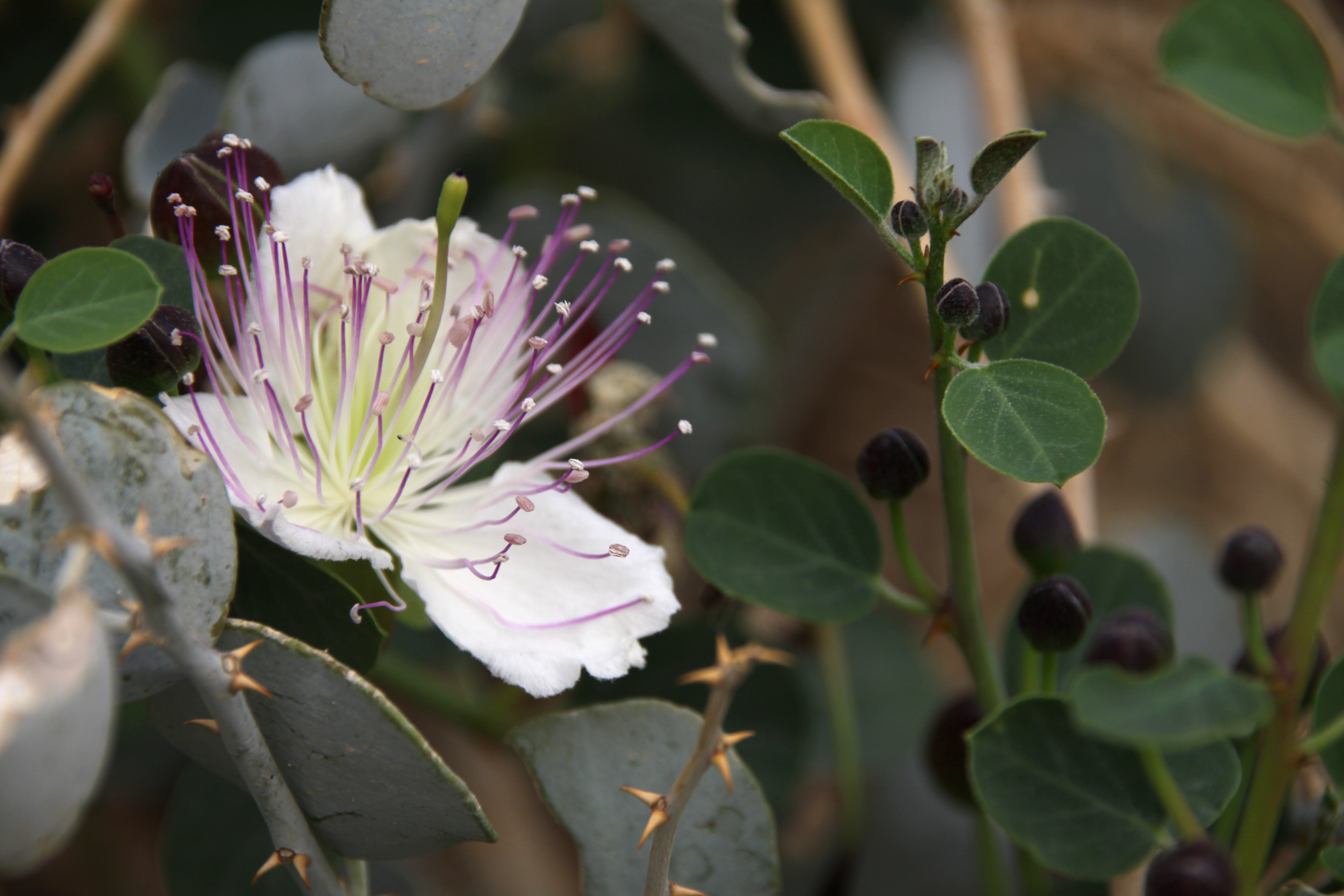 Capparis aegyptia flower and fruits, as seen in Judean Desert, Israel.